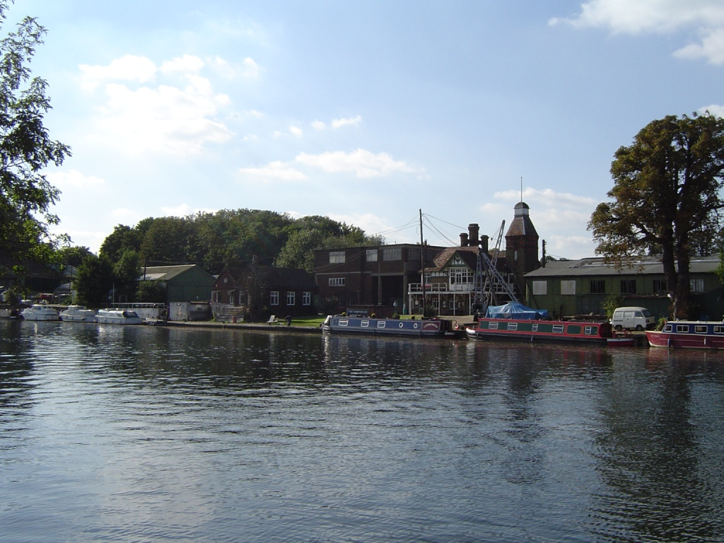 Platts Eyot near Hampton on the River Thames England (copy own work from English wiki)